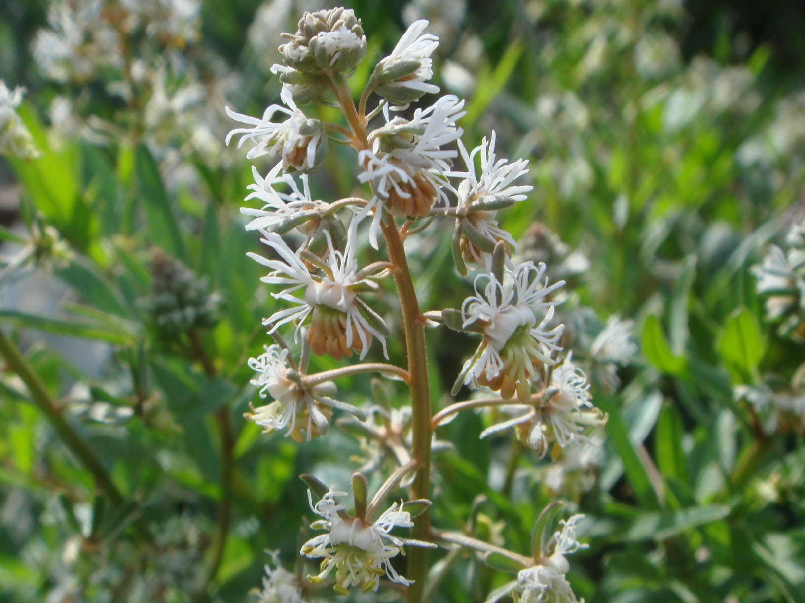 Corn Mignonette, Spain, Ceuta.